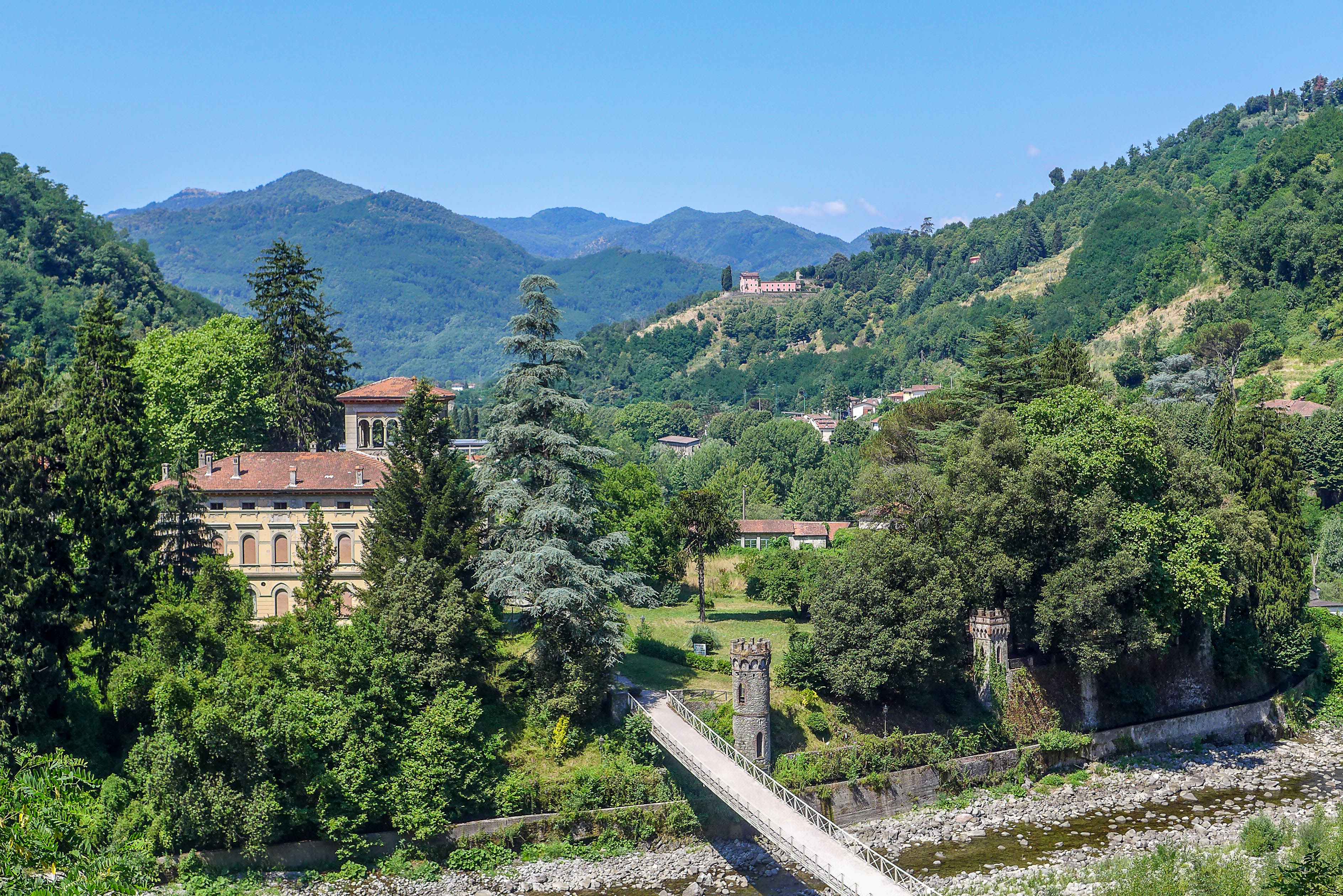 Bagni di Lucca, Tuscany, Italy June 2015